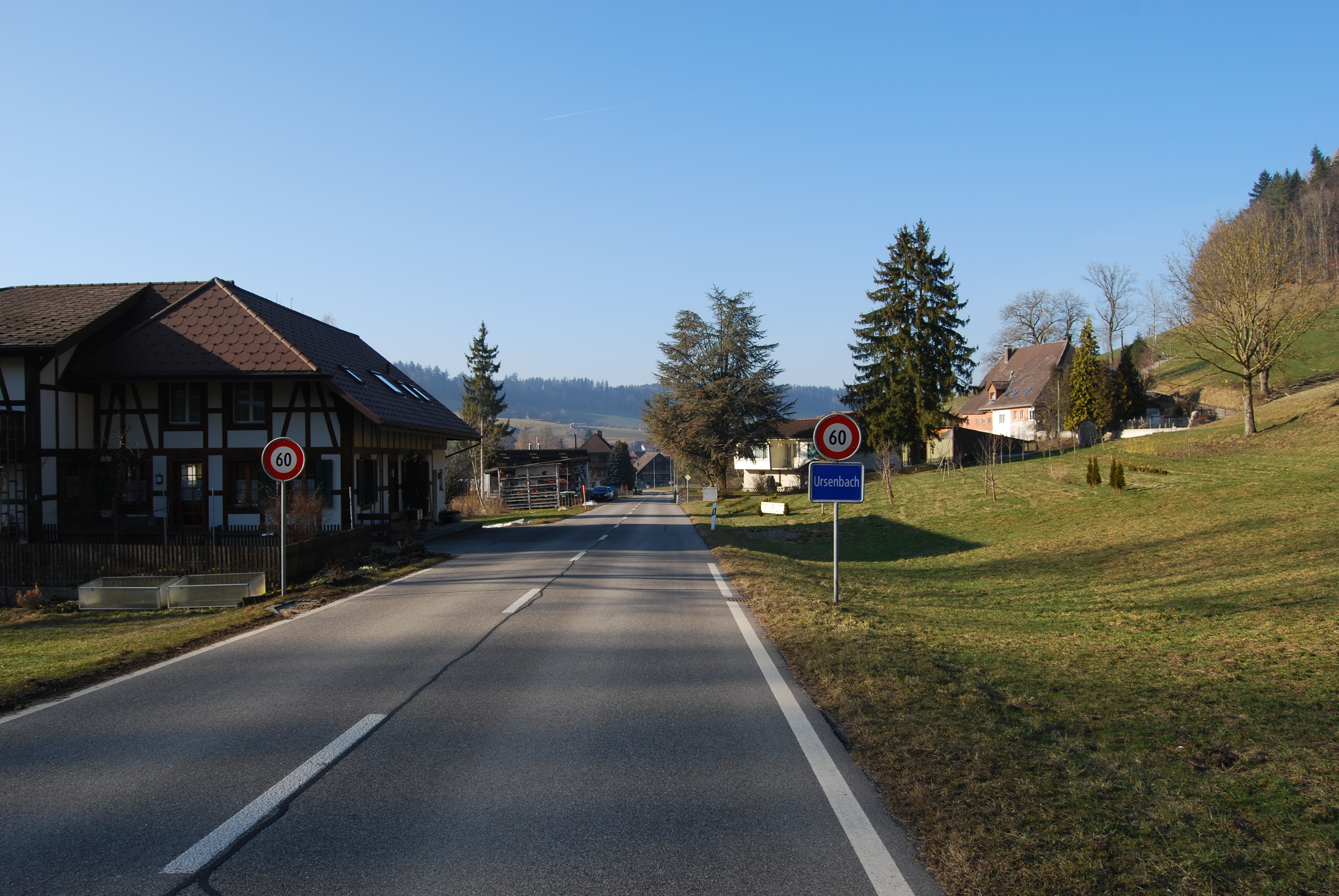 Ursenbach, canton of Bern, SwitzerlandEsperanto: Ursenbach, Kantono Berno, Svislando